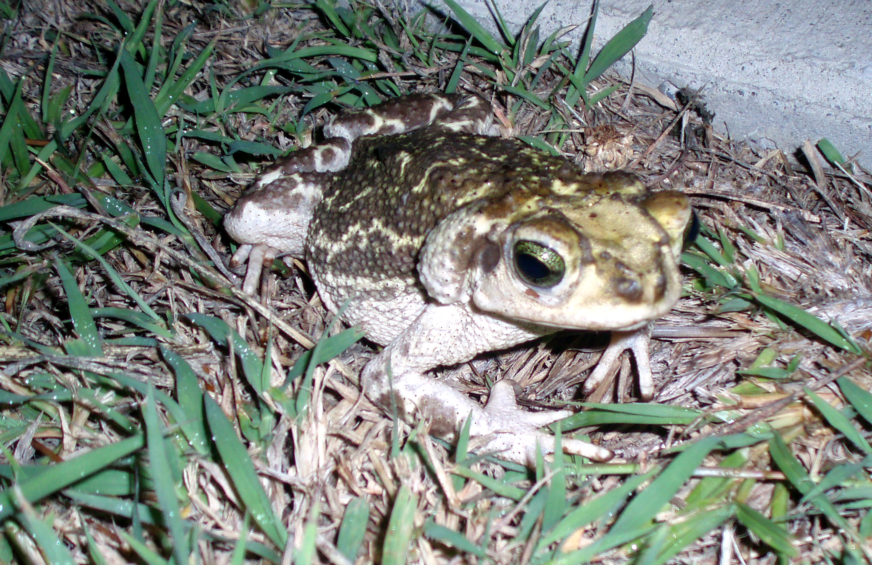 GUANTANAMO BAY, Cuba - A small-eared toad ventured out of its burrow after heavy rainshowers at the Winward Loop housing area on Oct. 6, 2007. (JTF Guantanamo photo by Army Capt. Cara J. Thompson)